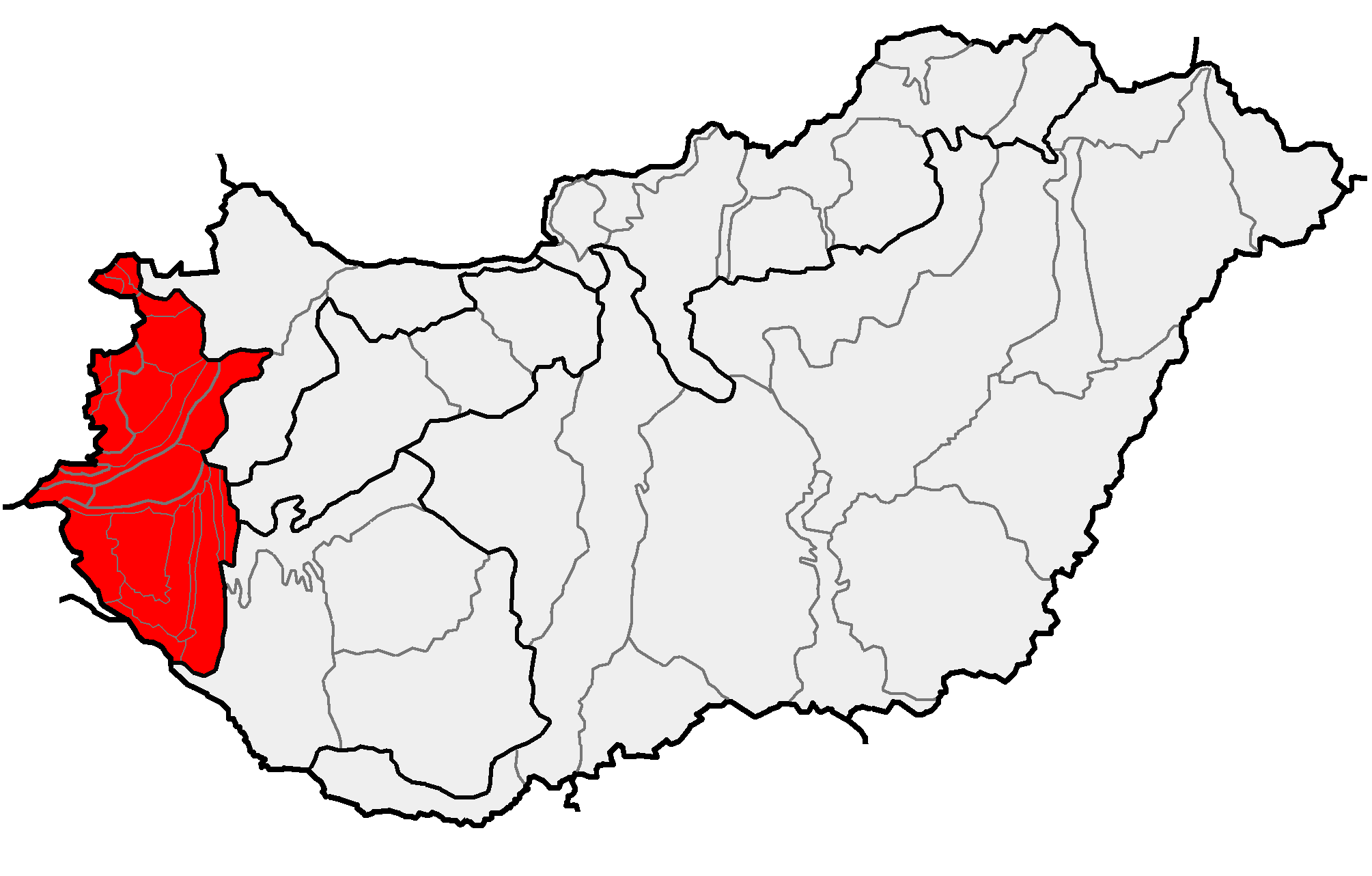 Location of geographical macroregion of Nyugat-magyarországi peremvidék (red) within subdivisions of Hungary.